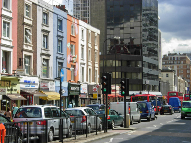 Edgware Road Looking along Edgware Road towards Marble Arch, between the Praed Street and Sussex Gardens junctions. Edgware Road is part of Roman Watling Street heading dead straight north-west out of London; it is now the A5. Traffic congestion is not unusual.